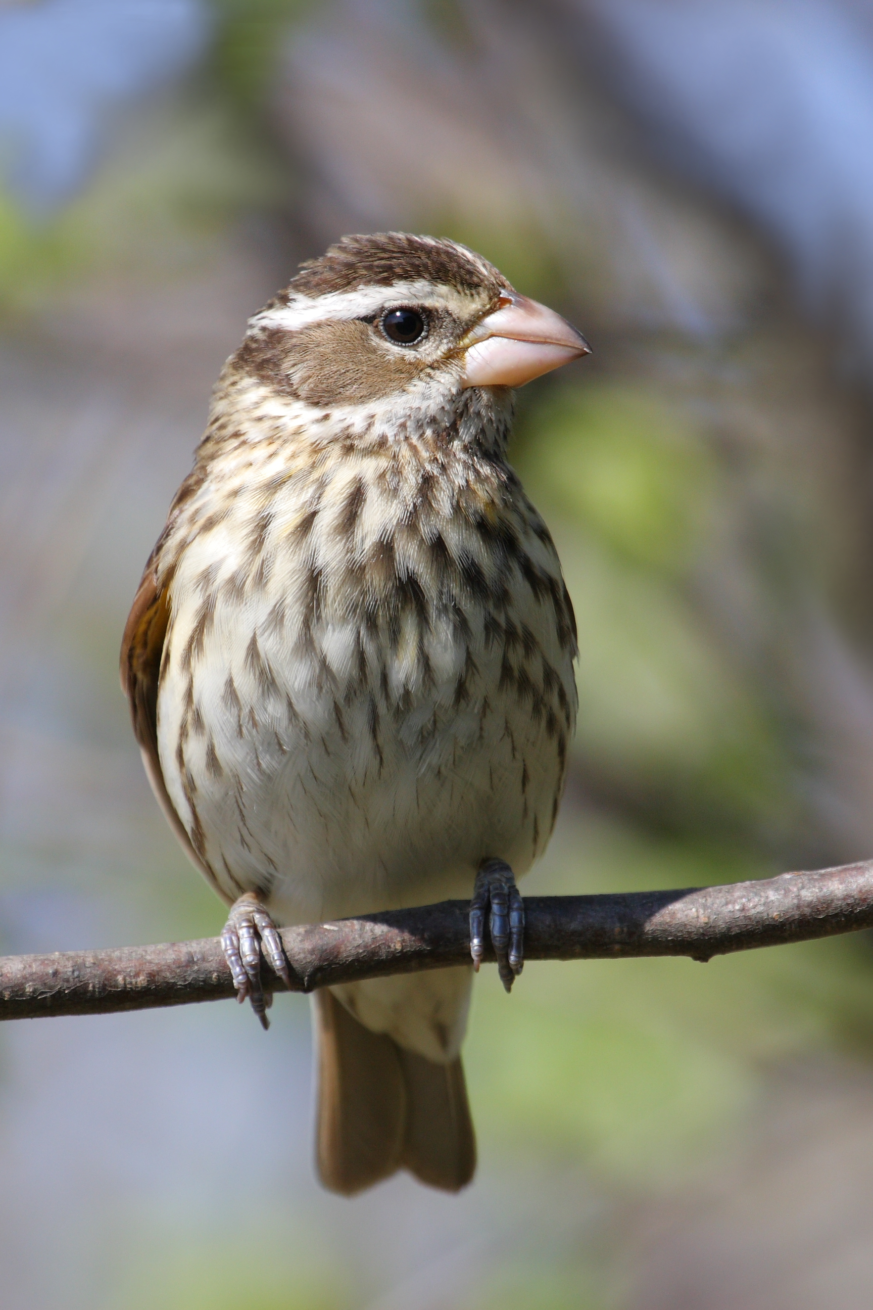 Rose-breasted Grosbeak (Pheucticus ludovicianus) female, Cap Tourmente National Wildlife Area, Quebec, Canada.